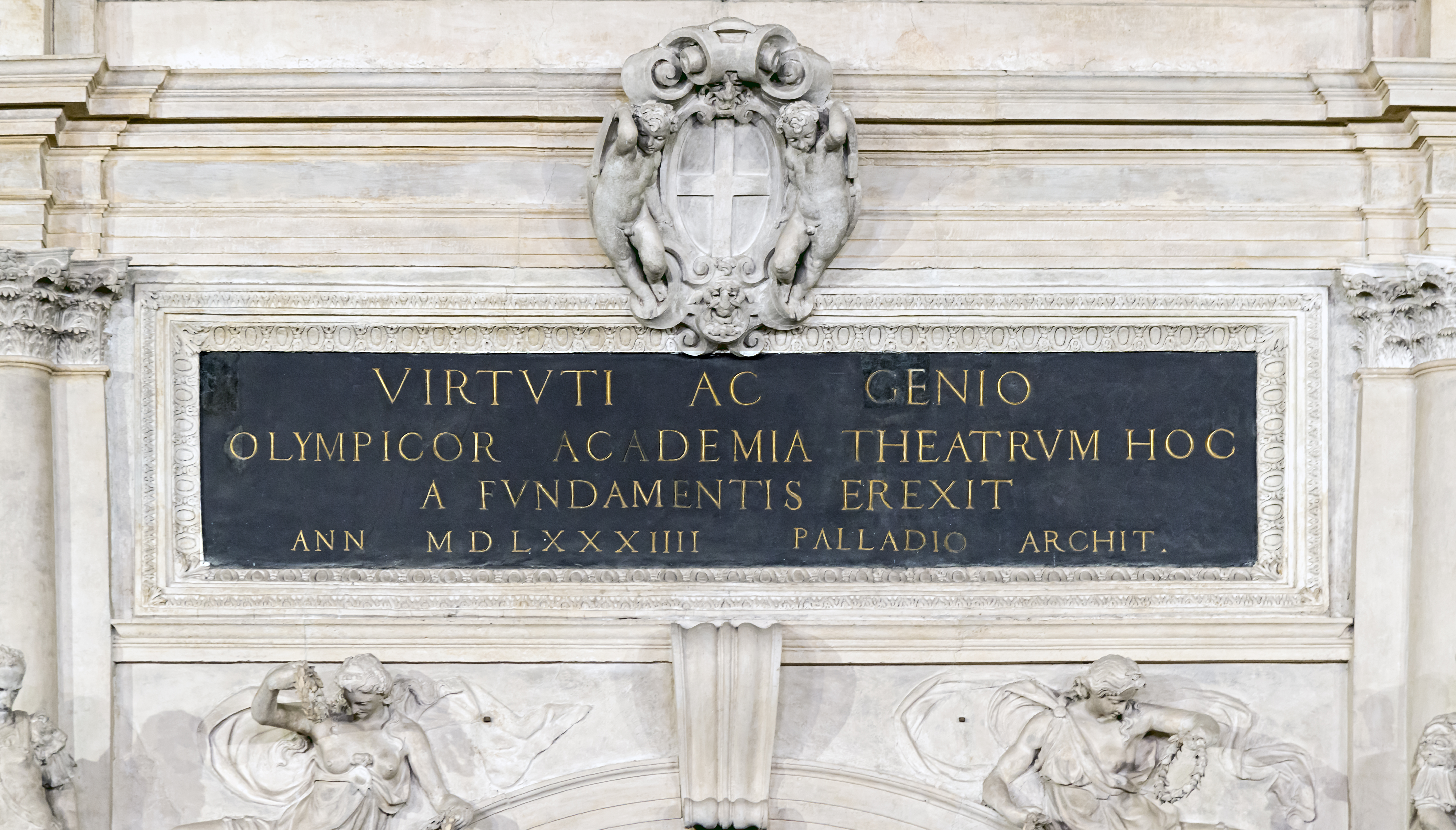 Teatro Olimpico. Theater located in Vicenza, designed in 1580 by the architect of the Renaissance Andrea Palladio. It is generally considered the first permanent covered theater of modern times. View of the stage wall (Scaenae frons). Detail of the inscription of the pediment (Value and competences, This Theater of the Olympic Academy, was erected, in 1584 by Palladio Architect).